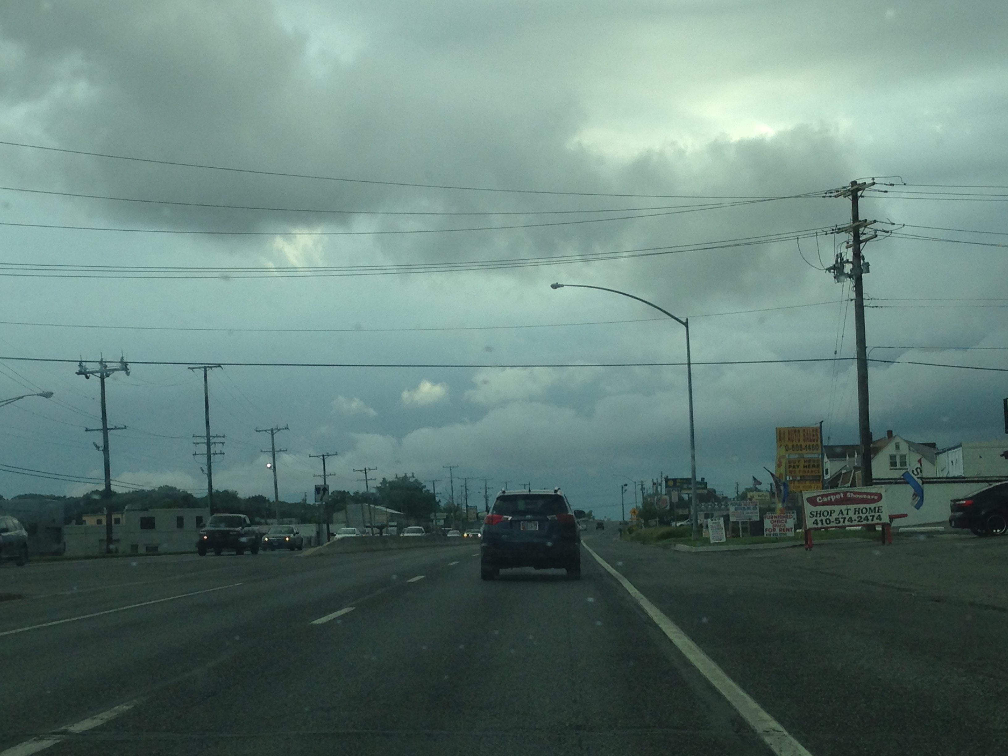 This photo shows a look down Pulaski Highway (US 40) in Rosedale, Maryland one evening. One can see the businesses that mark the side of the road as well as the cars that go by.